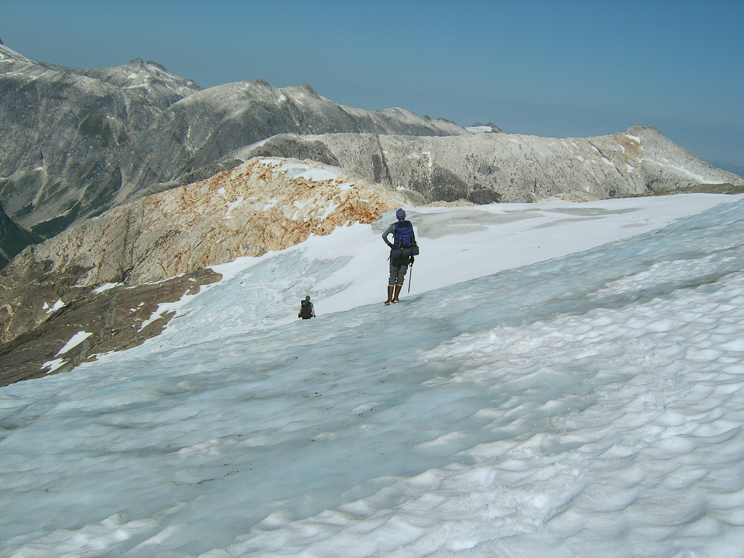 This is a picture taken of Lincoln and David late summer crossing the small icefield on the west side of Mt. Bassie on the Baranof Cross-Island trail.